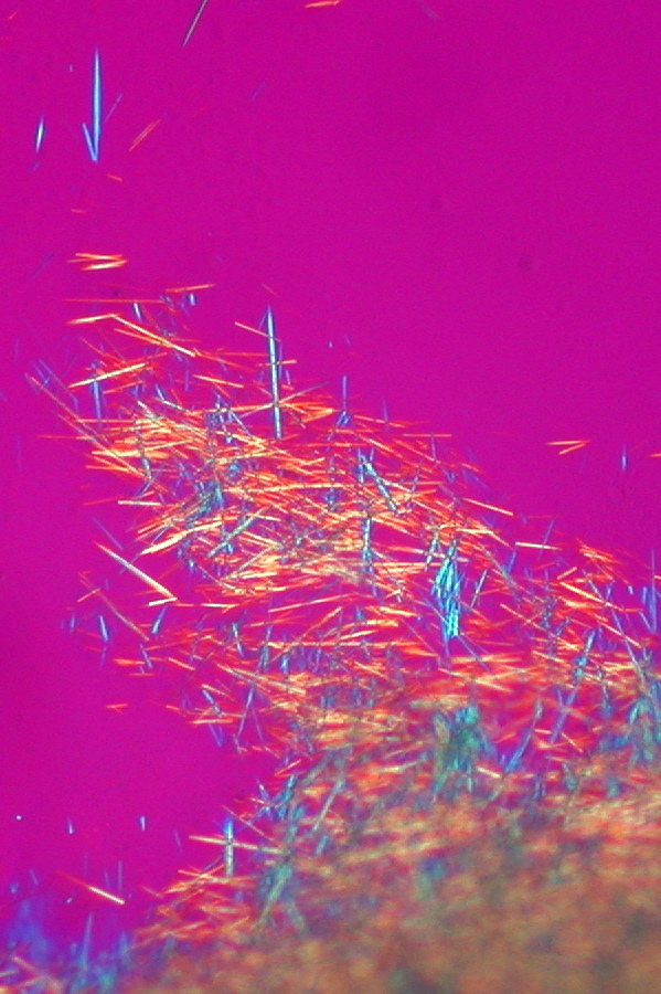 Squash prep of pasty white material that exuded from foot wound. Compensated polarized light microscopy. In this case, the podiatrist first sent a biopsy of the wound in formalin, with no history. Of course, the urates dissolved in processing, and the biopsy was nondiagnostic. So, I suggested she just pick up some of the goo, and we could smear it on the slide. Voila! Gout! Note that the color of the needle-like crystals depends on how they are oriented in respect to the axis of polarization. Pathological and histological images courtesy of Ed Uthman at flickr.